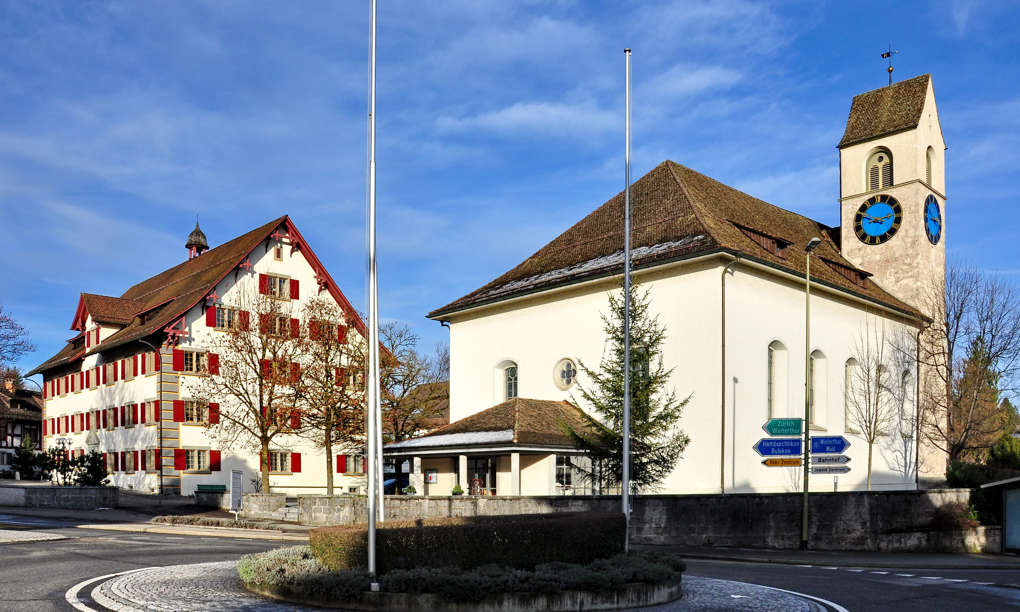 Rüti (ZH) : Former Rüti Abbey's Amthaus (Bailiff's house) now used as public library, and the Protestant church.